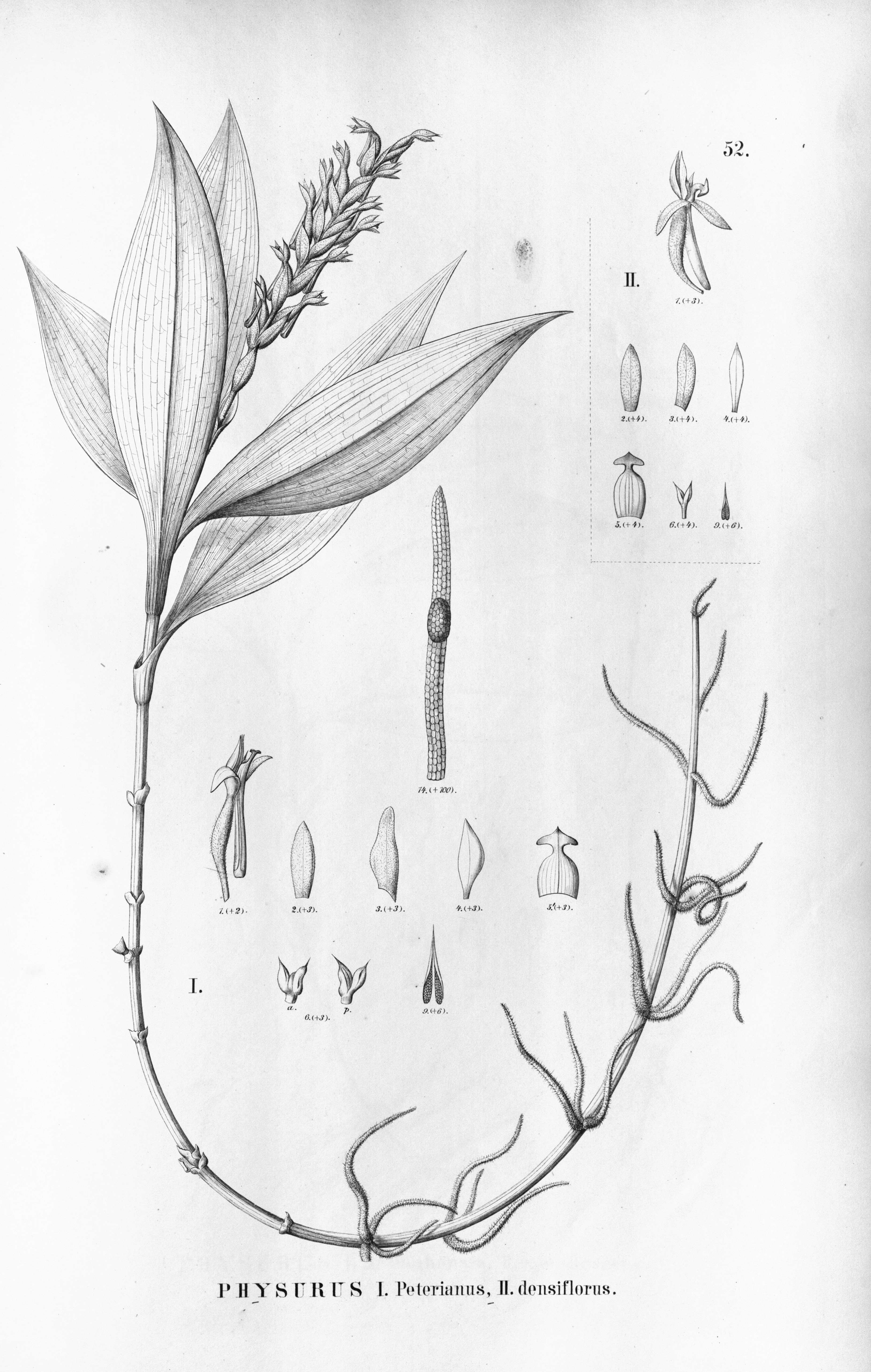 Illustration of: I. Ligeophila peteriana (as syn. Physurus peterianus) II. Aspidogyne foliosa (as syn. Physurus densiflorus)